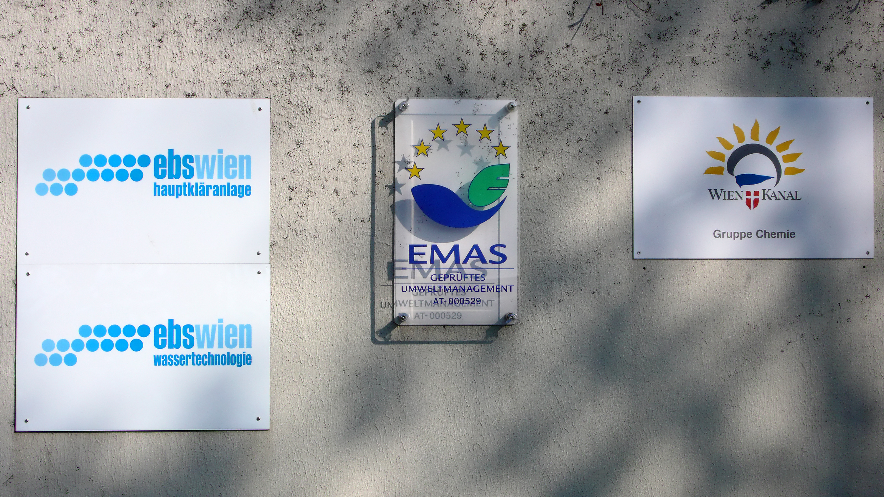 Sewage treatment plant Hauptkläranlage Wien in Vienna Simmering